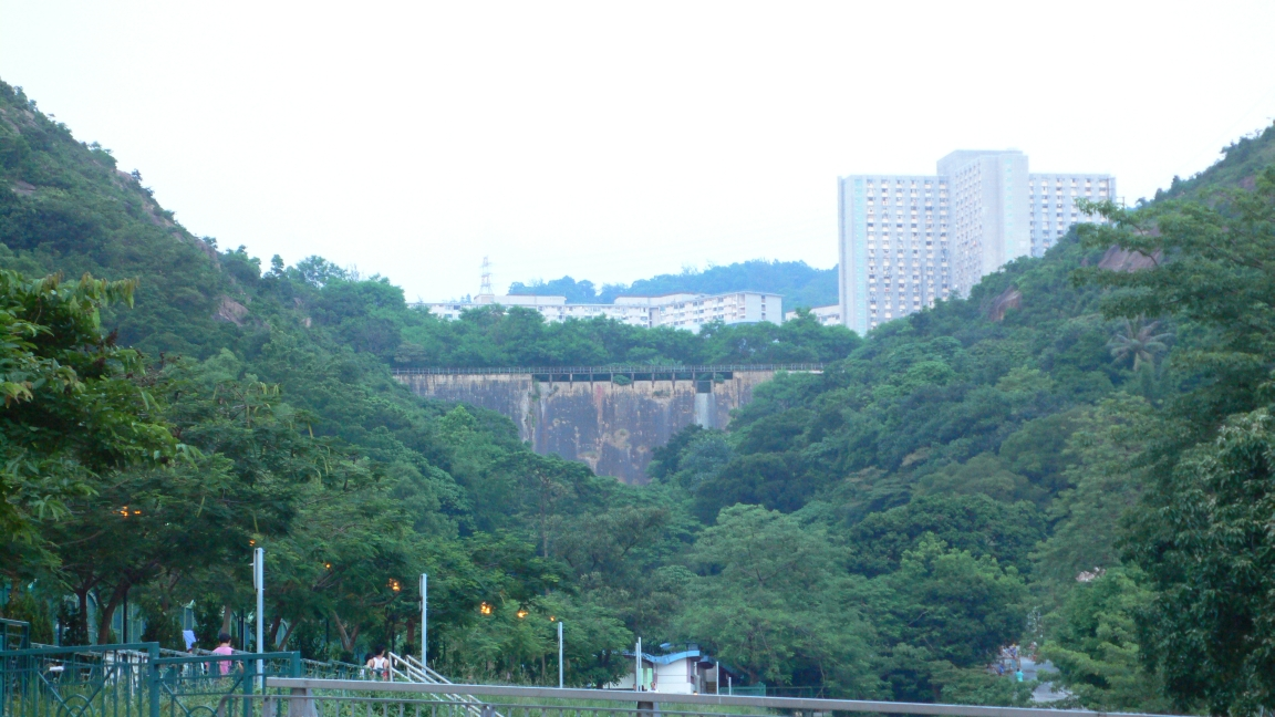 In the photo we can see the main dam of Jordan Valley Reservoir in Hong Kong, above it we can see Shun Lee and Shun On Estate